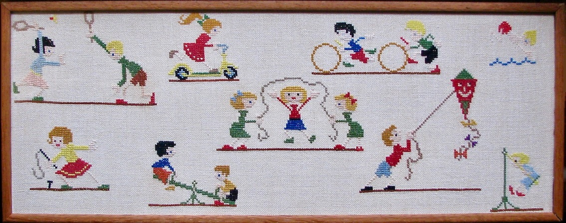 Embroidery of 9 children playing (children's games): badminton, hoops, swimming, scootering, spinning top, hopping, skipping ropes, flying kites, swinging. Made by Marijke van Leeuwen-Blanken (14 years old) in 1960.